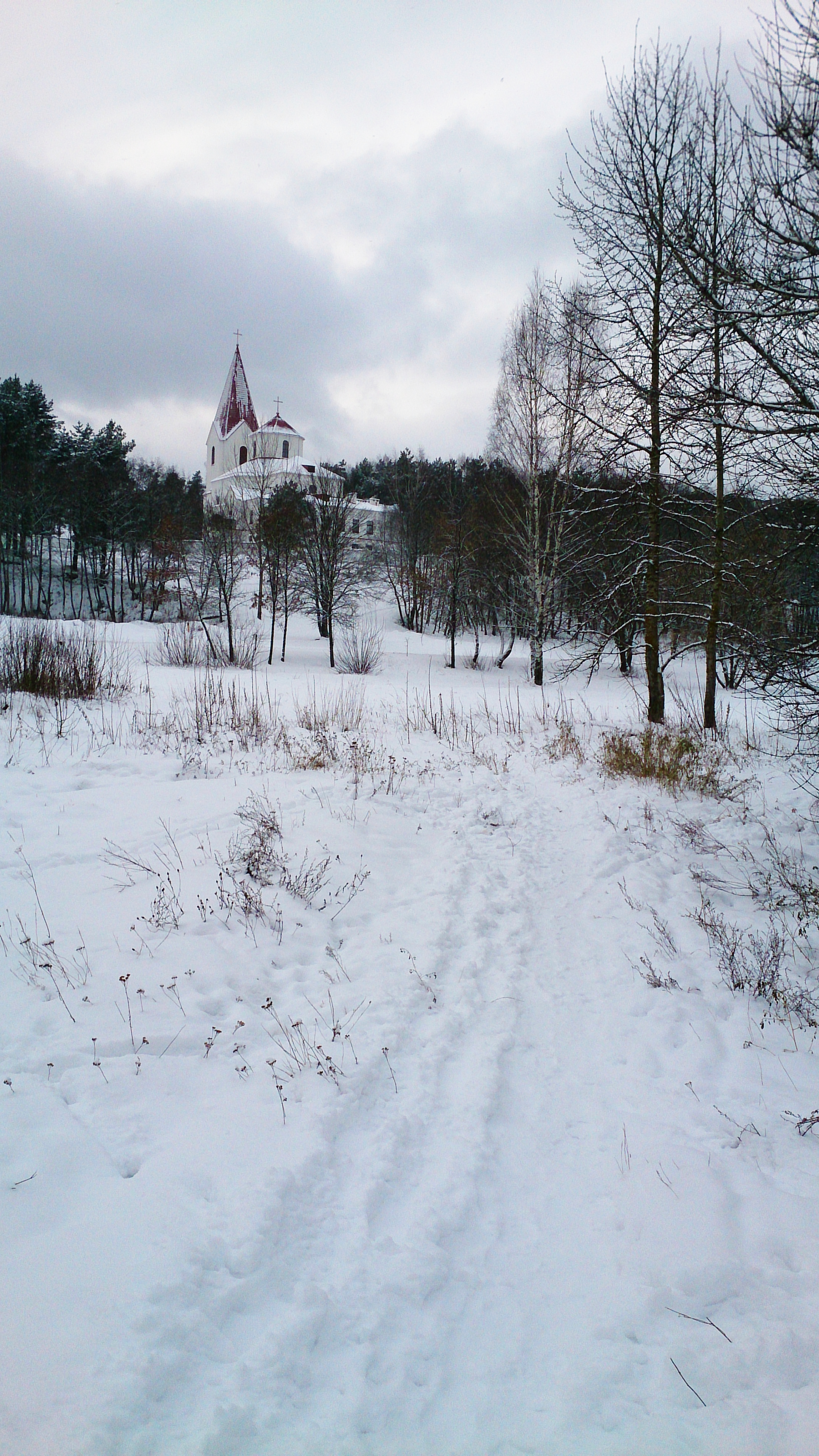 Winter in Novopolotsk. Catholic church of the Sacred Heart of Jesus Christ.